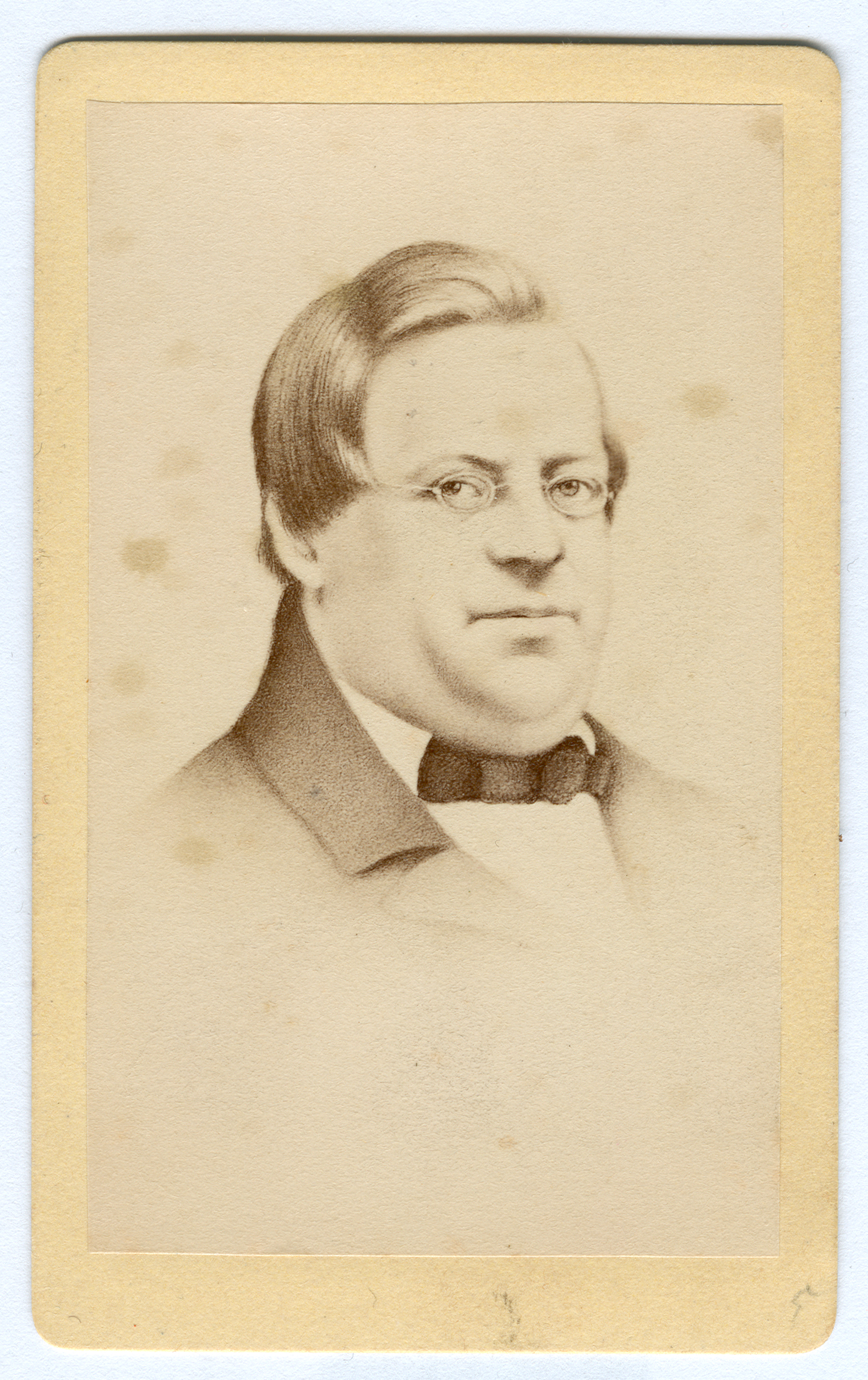 Heinrich Marschner, Carte de Visite